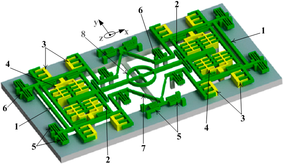 Schematic drawing of a proposed freestanding tuning fork gyroscope: (1) outer frame, (2) inner frame, (3) driving comb electrodes, (4) parallel plate sense electrode, (5) double folded beams, (6) anchors, (7) linear beams and (8) self-rotation ring.